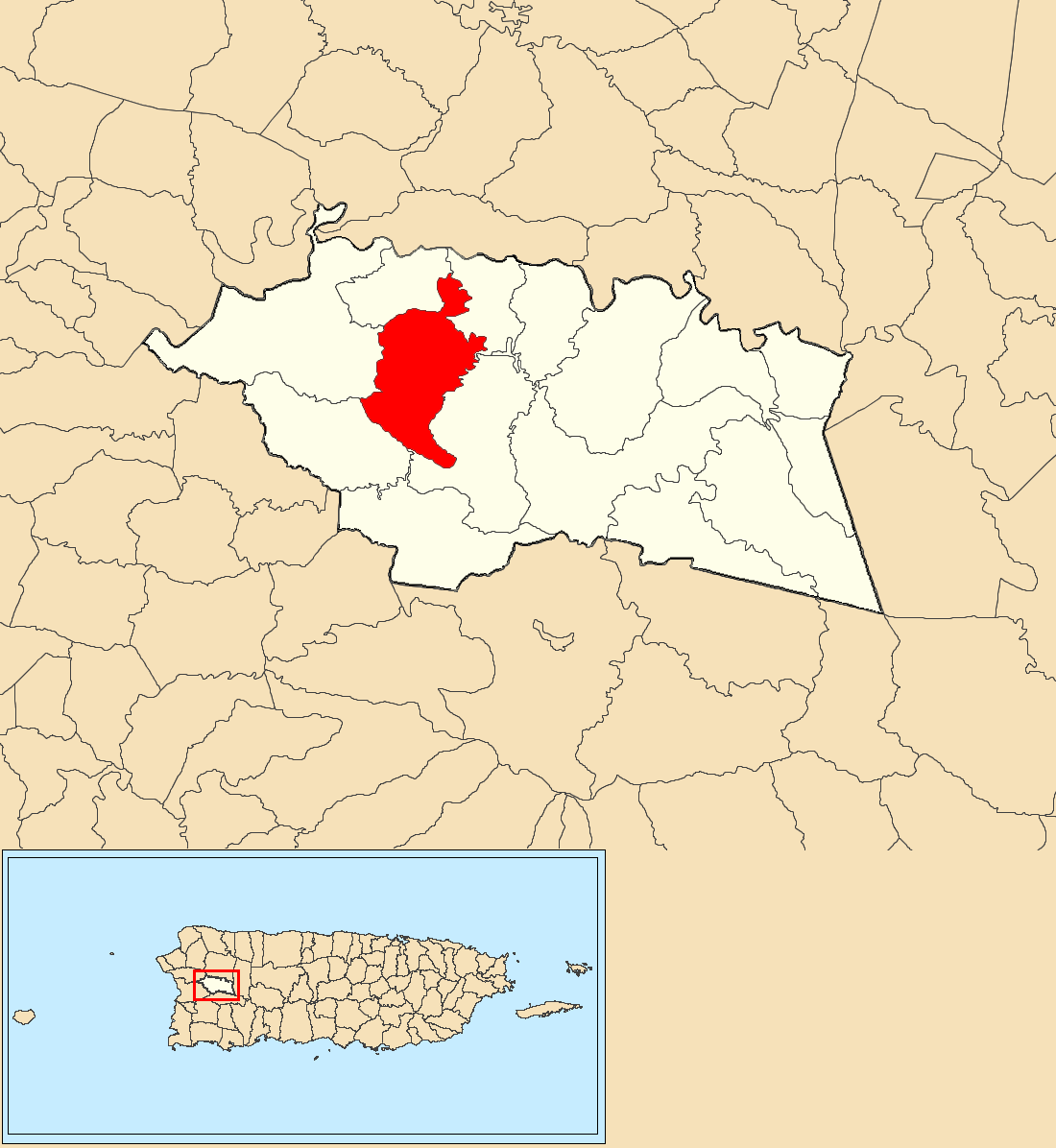 Furnias, Las Marías, Puerto Rico locator map